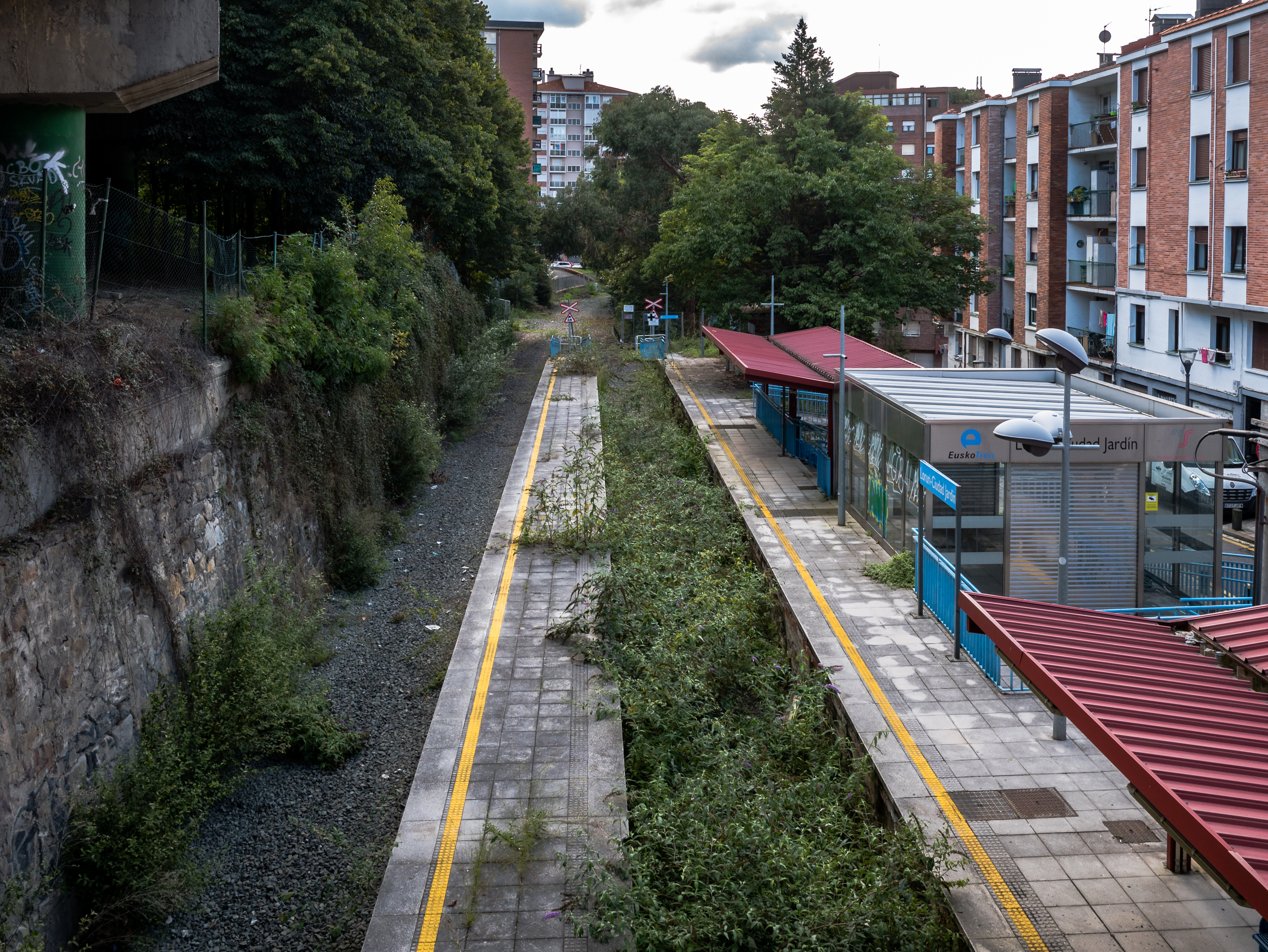 Abandoned railway station "Ciudad Jardín" ("Garden City") of Euskotren railway company. Bilbao, Biscay, Spain